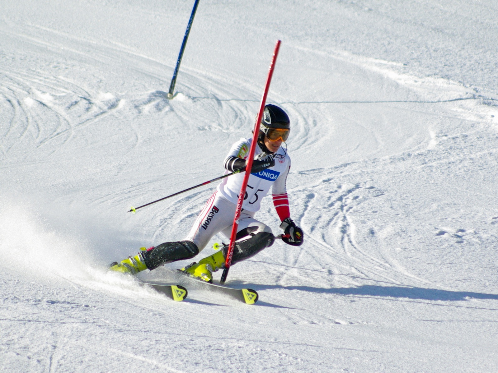 Austrian alpine skier Roland Leitinger in the first Slalom run at the Austrian Alpine Ski Championships 2008 in Haus im Ennstal.